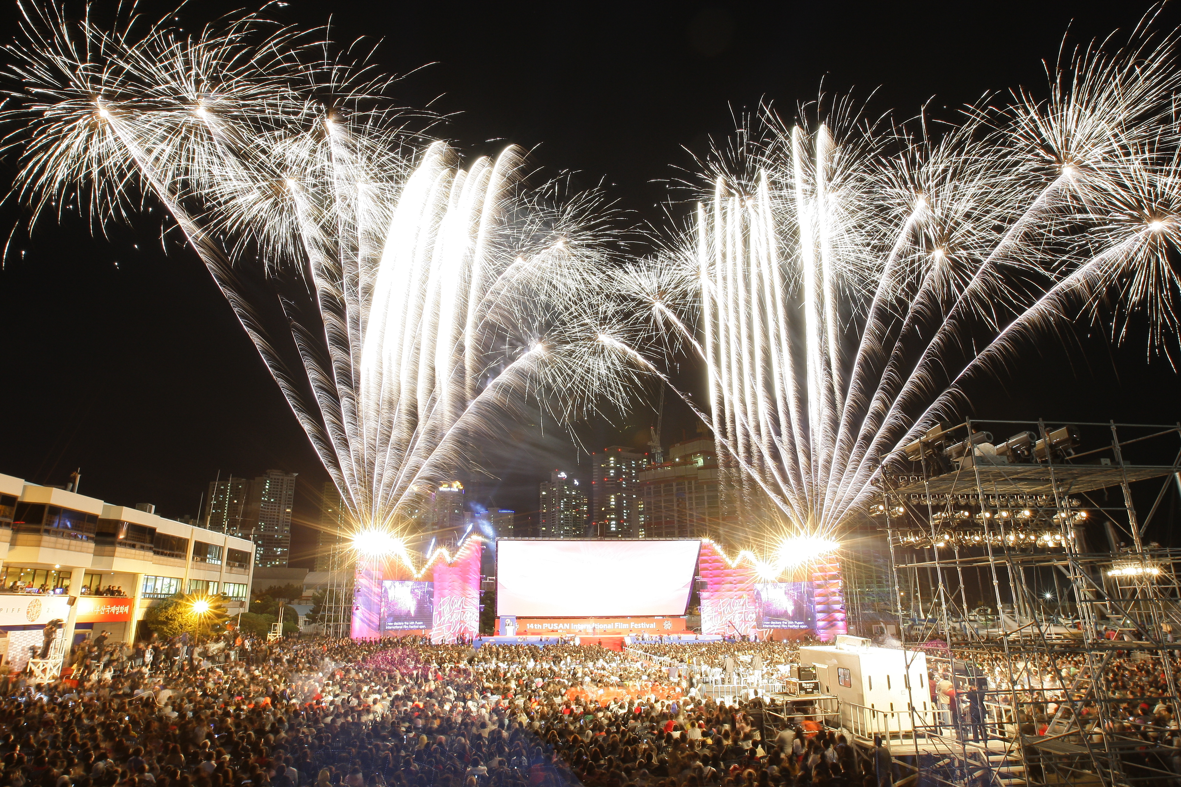 opening ceremony of 14th pusan international film festival